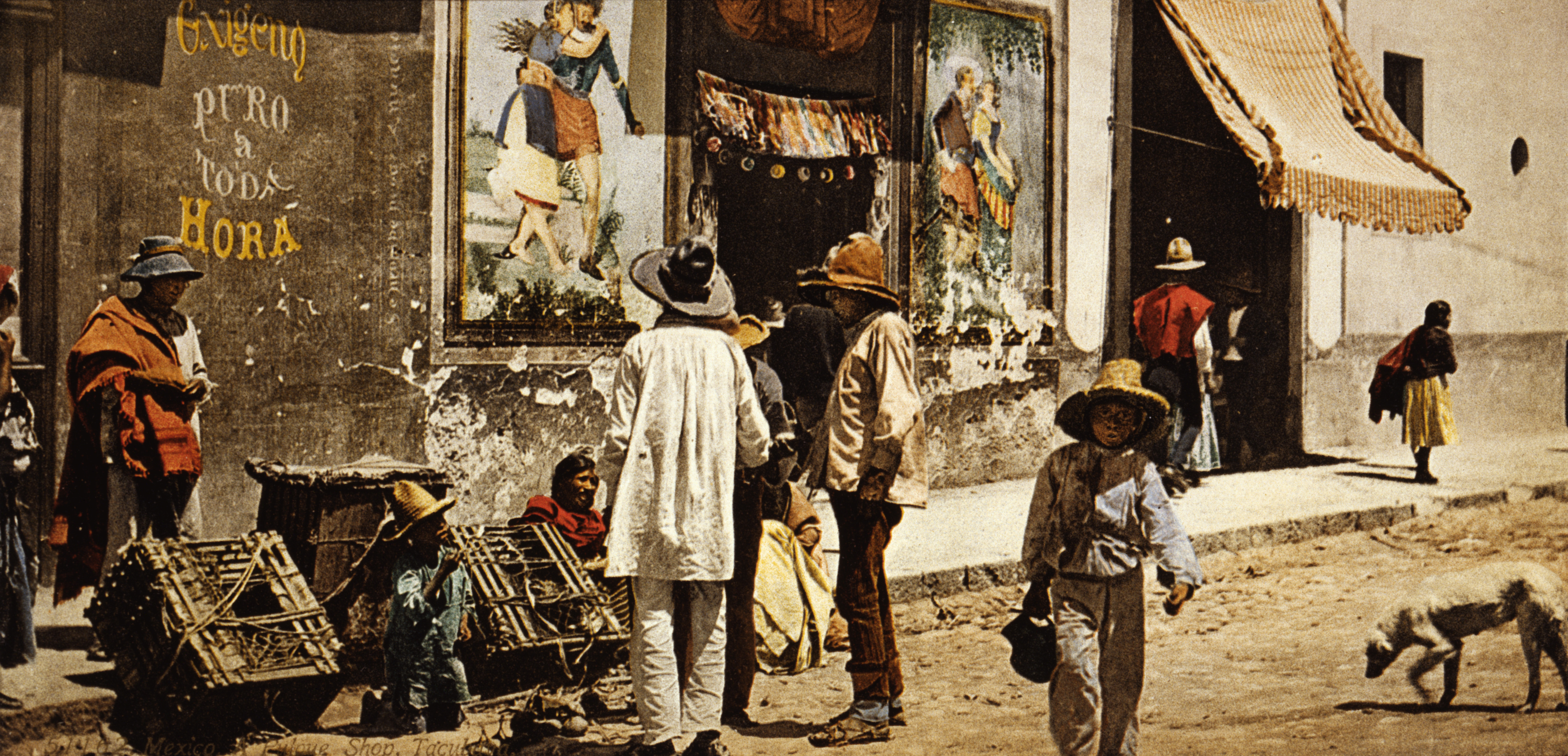 Photochrom print of a pulque store, Tacubaya, Guanajuato, Mexico